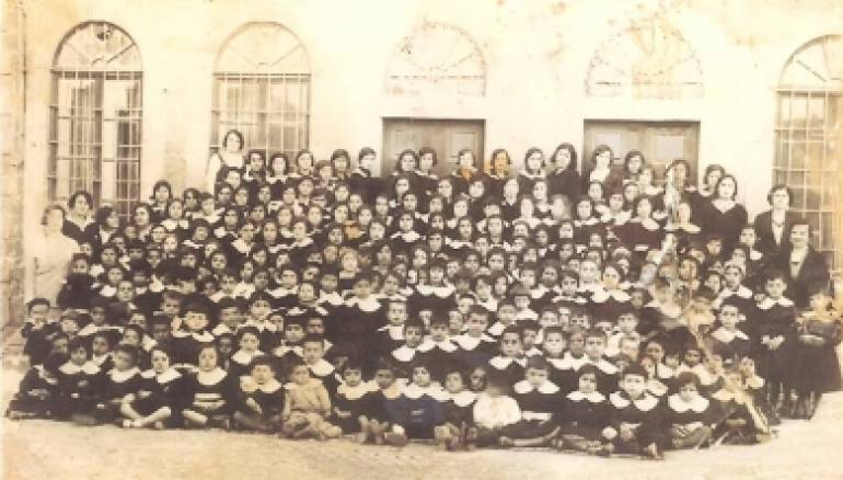 Al Ghassania Orthodox Private School early alumni. One of the first images captured for this school alumni.